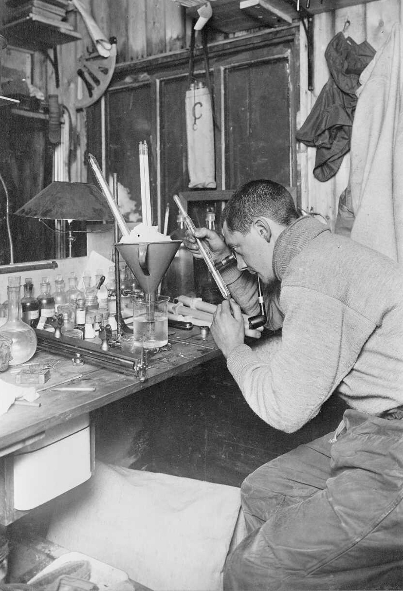 Edward W Nelson seated inside, at a laboratory table, testing thermometers during the British Antarctic ("Terra Nova") Expedition (1910-1913). Photograph taken on the 14th of July 1911, by Herbert George Ponting.